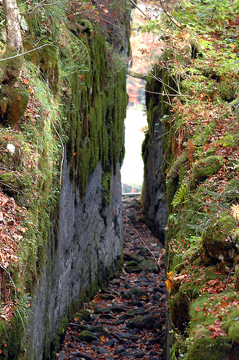 Lake Kammersee in Austria; breach between Lake Kammersee and Lake Toplitzsee.